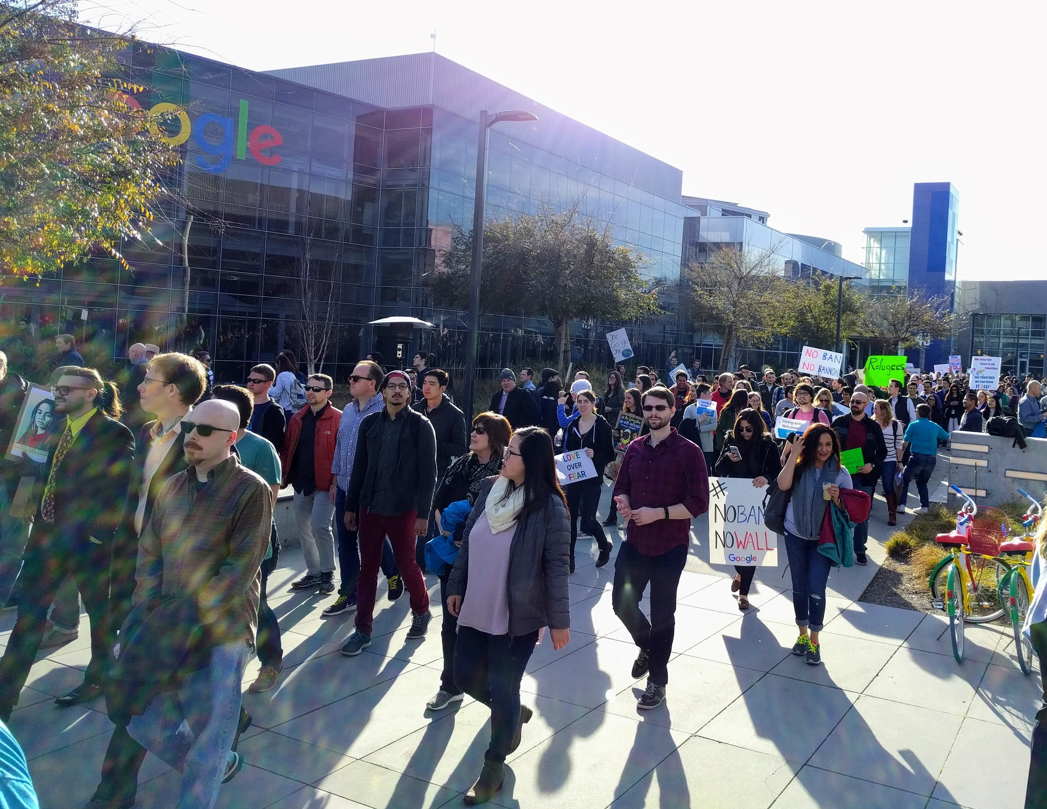 Protests against Executive Order "Protecting the Nation from Foreign Terrorist Entry into the United States" in Googleplex, Mountain View, California